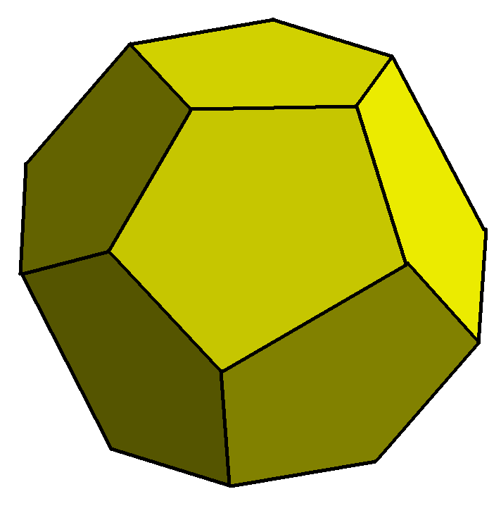 A space-filling polyhedron Source data Created from vertices listed at: [1] Obj format: # irregular dodecahedron # v -3.1498 0 6.2996 v 3.1498 0 6.2996 v 4.1997 4.1997 4.1997 v 0 6.2996 3.1498 v -4.1997 4.1997 4.1997 v -4.1997 -4.1997 4.1997 v 0 -6.2996 3.1498 v 4.1997 -4.1997 4.1997 v 6.2996 3.1498 0 v -6.2996 3.1498 0 v -6.2996 -3.1498 0 v 6.2996 -3.1498 0 v 4.1997 4.1997 -4.1997 v 0 6.2996 -3.1498 v -4.1997 4.1997 -4.1997 v -4.1997 -4.1997 -4.1997 v 0 -6.2996 -3.1498 v 4.1997 -4.1997 -4.1997 v 3.1498 0 -6.2996 v -3.1498 0 -6.2996 g pentagons f 1 2 3 4 5 f 16 17 18 19 20 f 1 2 8 7 6 f 2 3 9 12 8 f 3 4 14 13 9 f 4 5 10 15 14 f 5 1 6 11 10 f 16 17 7 6 11 f 17 18 12 8 7 f 18 19 13 9 12 f 19 20 15 14 13 f 20 16 11 10 15